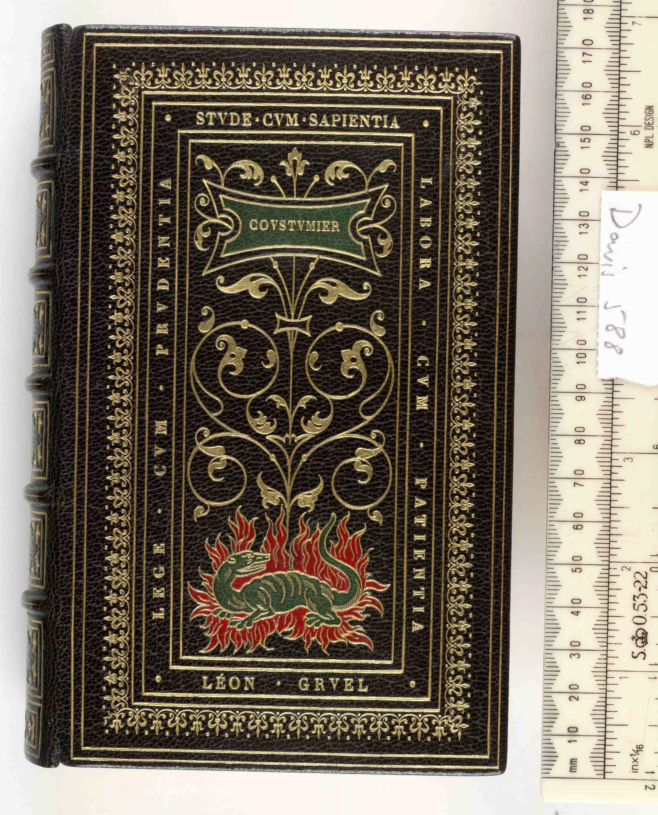 Style: Lettered cover, eg intitals, titles|Retrospective, imitations of earlier styles; Caption: Upper cover; Colour: Brown; Edge: Gilt